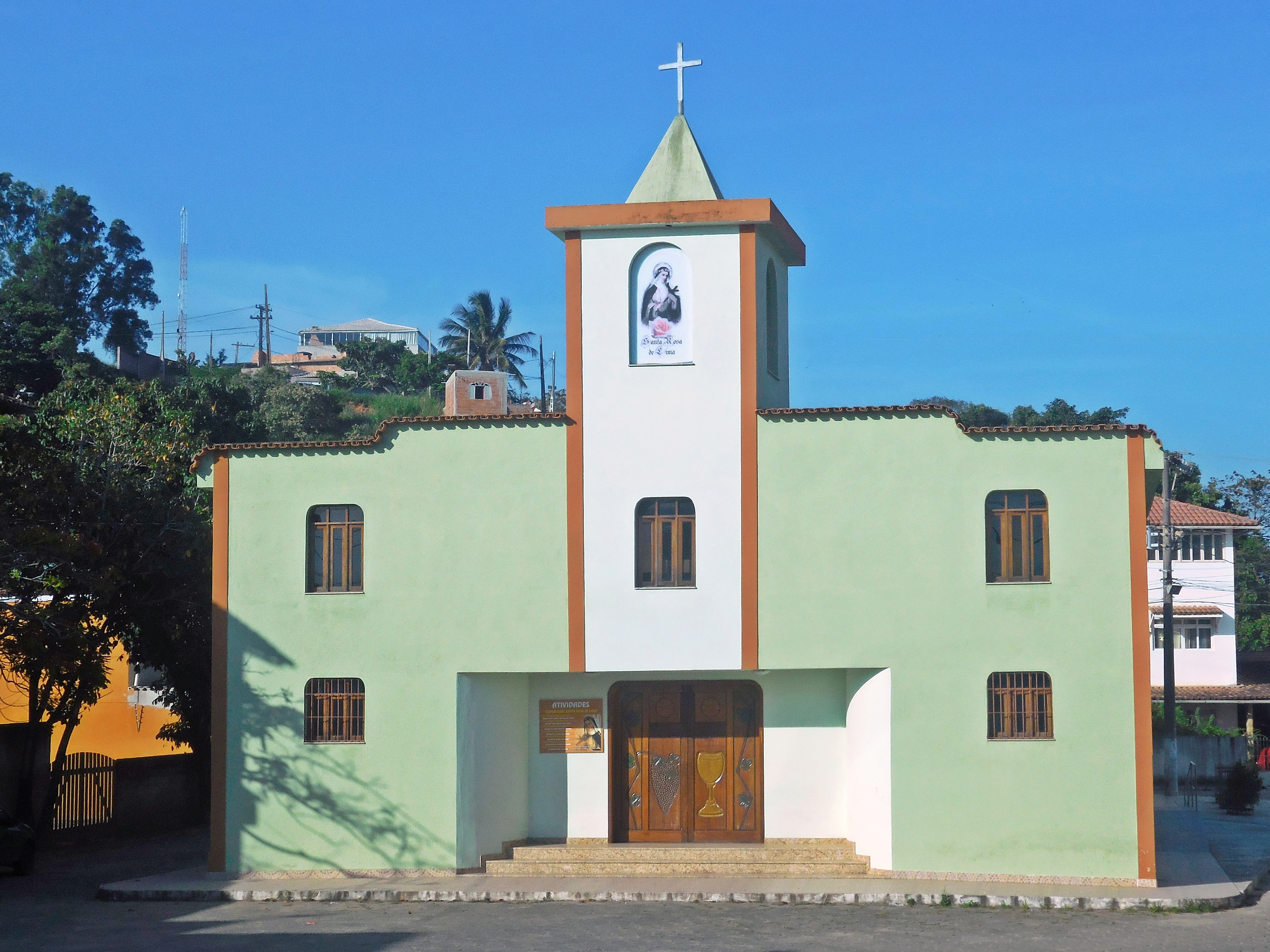 Front of the Saint Rose of Lima Church, in Piúma, Espírito Santo, Brazil.